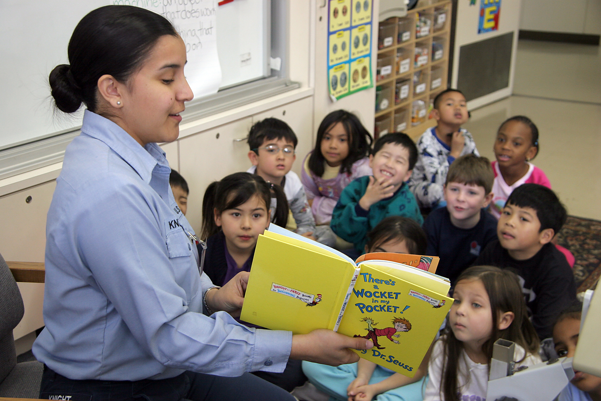 Atsugi, Japan (Mar. 2, 2005) - Yeoman 3rd Class Inez Knight, assigned to the Administration Department on board U.S. Naval Air Facility Atsugi, Japan, reads to a first-grade class at the Shirley Lanham Elementary School. The school, along with those across the United States, participated in Read Across American. The event is observed each year on Dr. Seuss's birthday, and is an attempt at reinforcing children's desire to read. U.S. Navy photo by Journalist 3rd Class Matthew R. Schwarz (RELEASED)